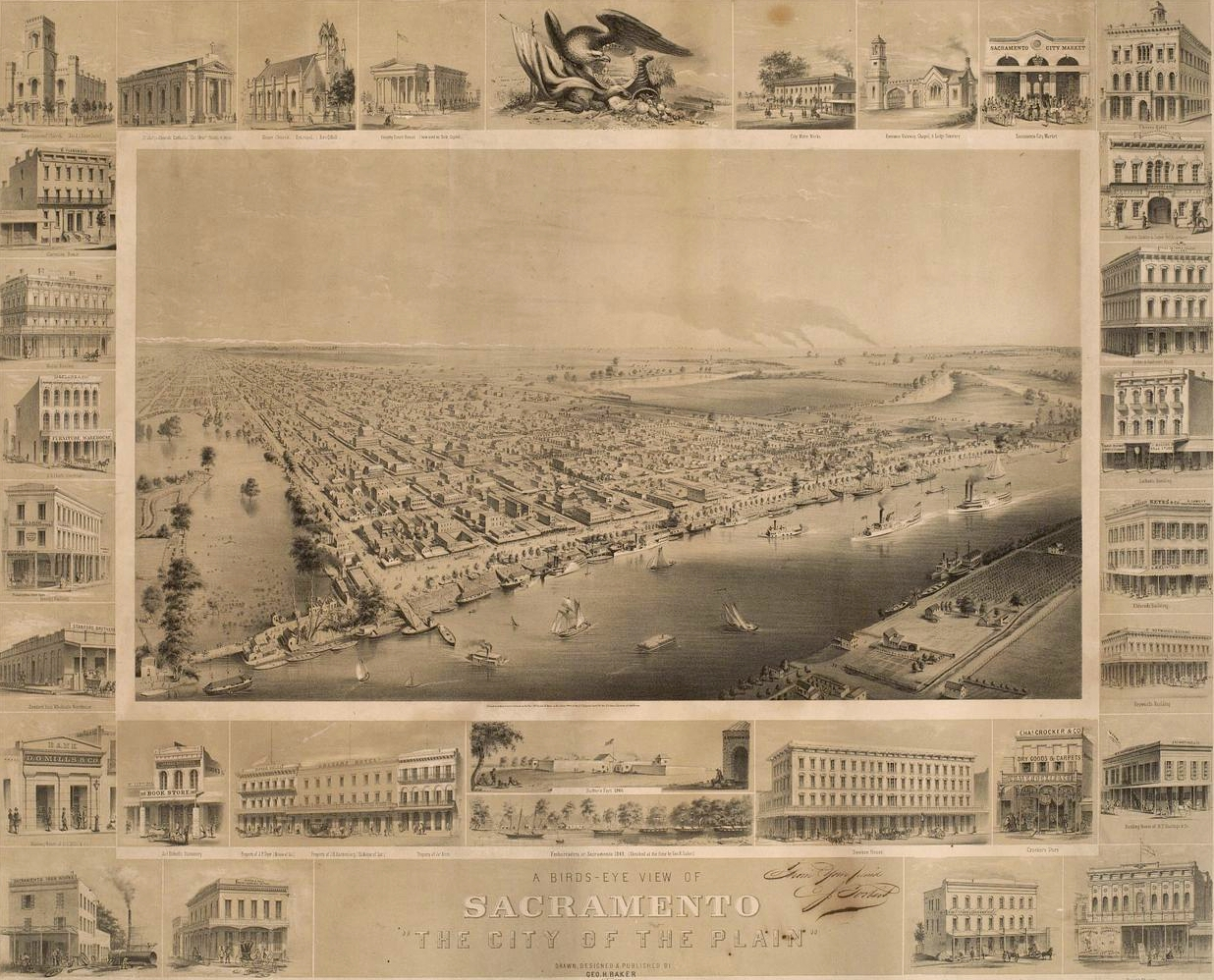 A bird's-eye view of Sacramento [California]: the city of the plain. City seen from above Sacramento River with waterfront area, ships, steamships, barges, etc. in foreground. Marginal views include local businesses, churches, public buildings, hotels, theaters, and industry. Includes view of Sutter's Fort in 1846 and Sacramento in 1849. Print on paper mounted on board: lithograph, color 79.9 x 100.1 cm.